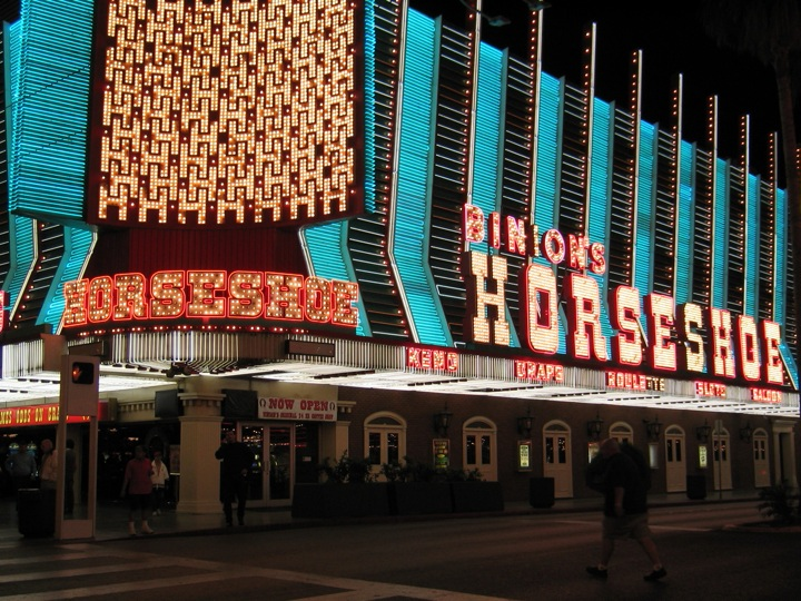 Binion's Horseshoe, on the old Las Vegas strip.Binion's HorseShoe